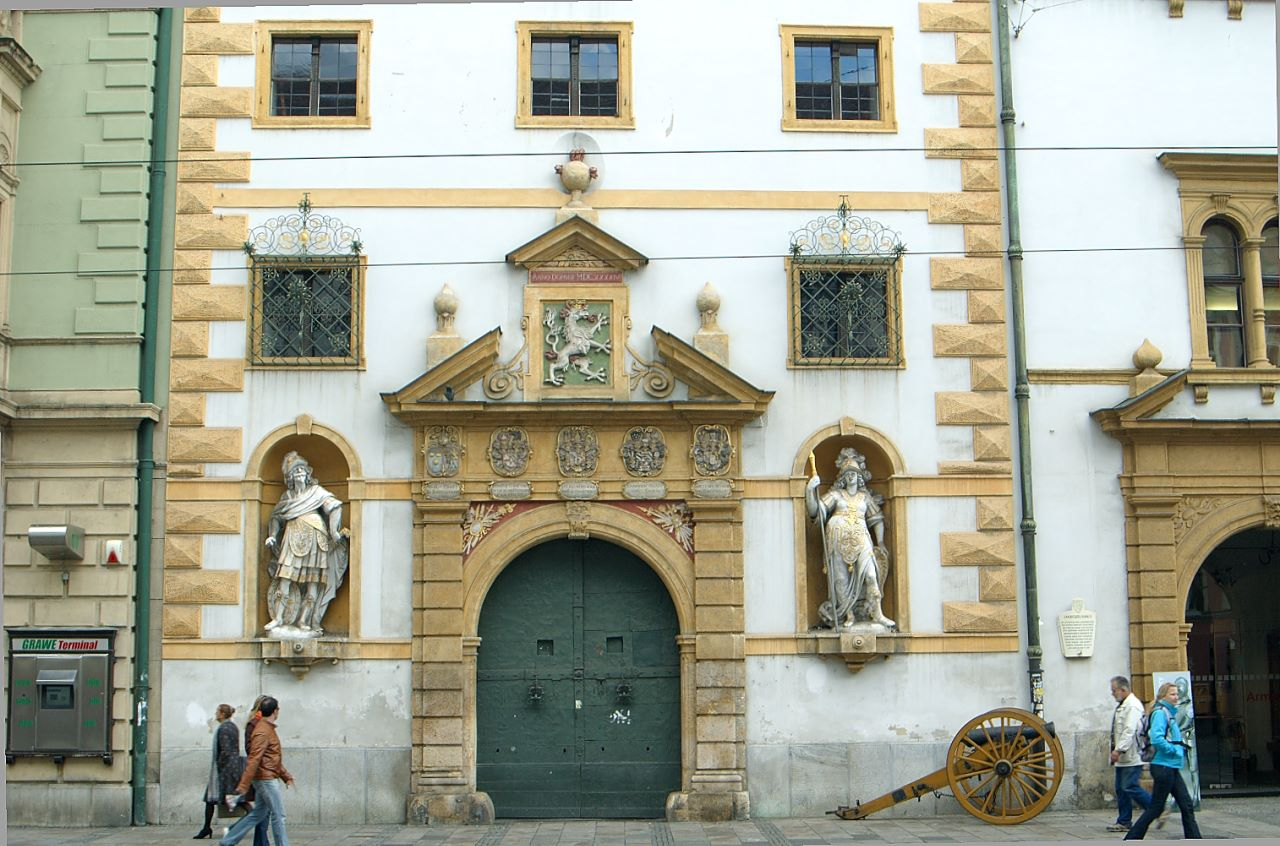 Front Gate of Armory of Graz